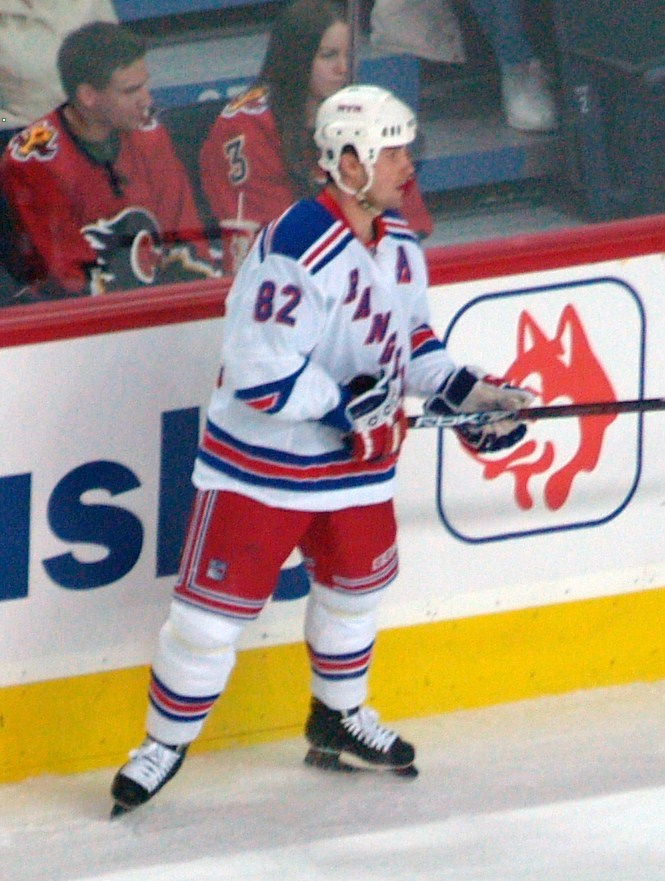 Martin Straka of the New York Rangers in a game against the Calgary Flames in Calgary